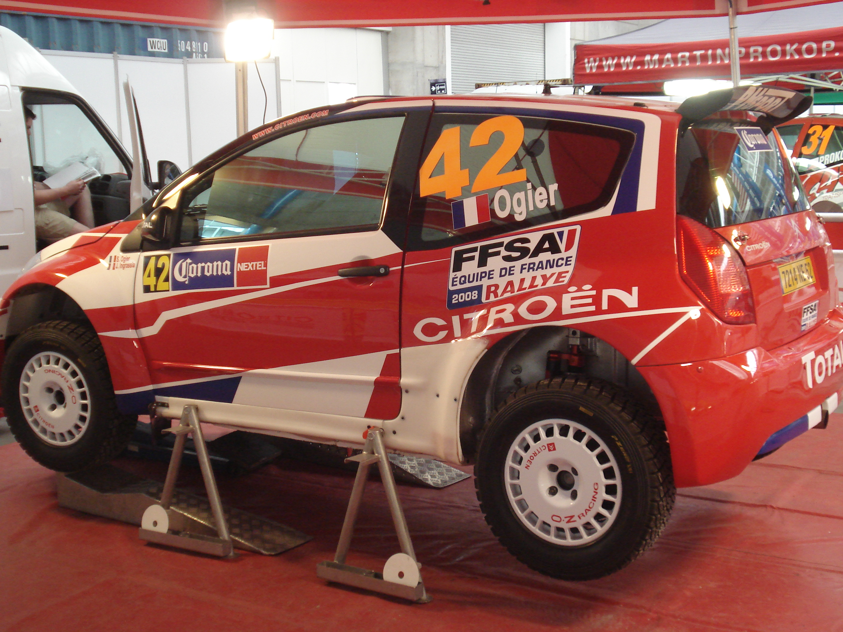 Sebastien Ogier's Citroën C2 S1600 parked prior to the 2008 Rally Mexico at rally base in the Poliforum in Leon, Mexico.